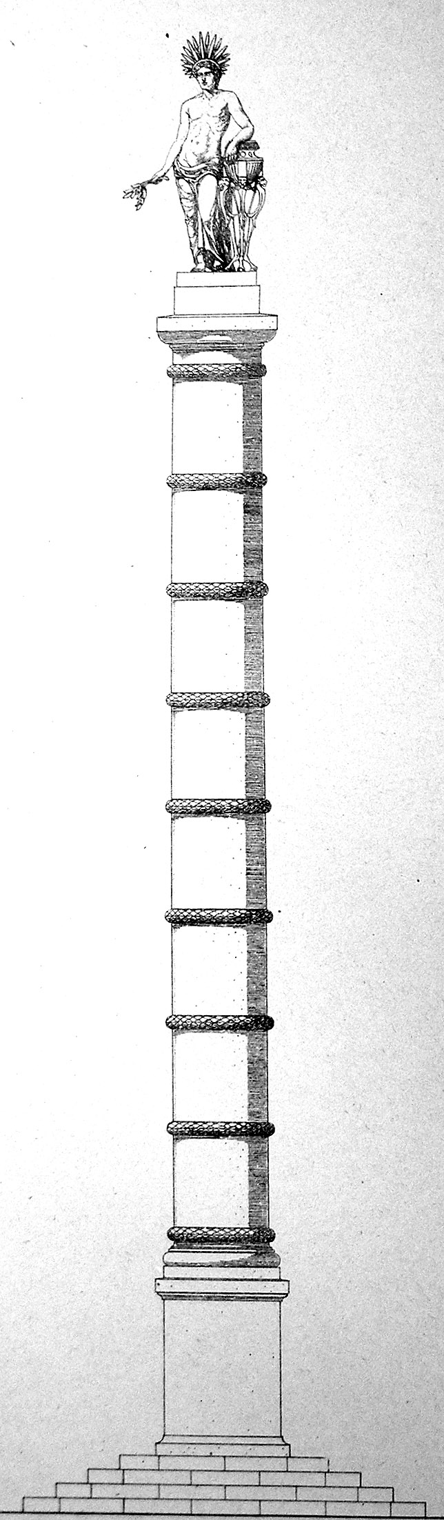 Reconstruction of the Constantine column in Constantinople with the emperor's statue. By Gurlitt 1912.